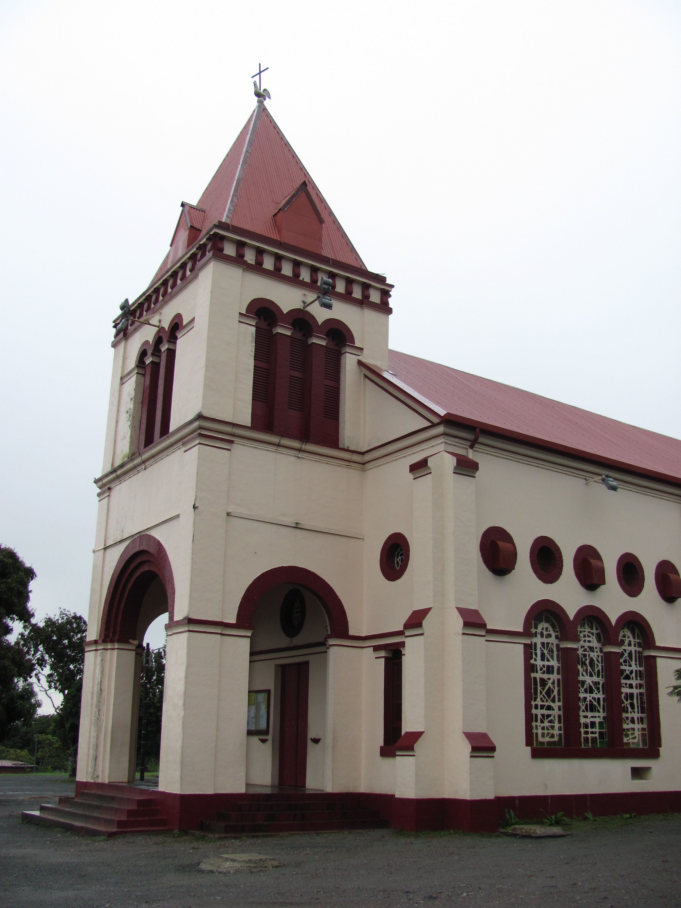 Catholic church, Païta, New Caledonia